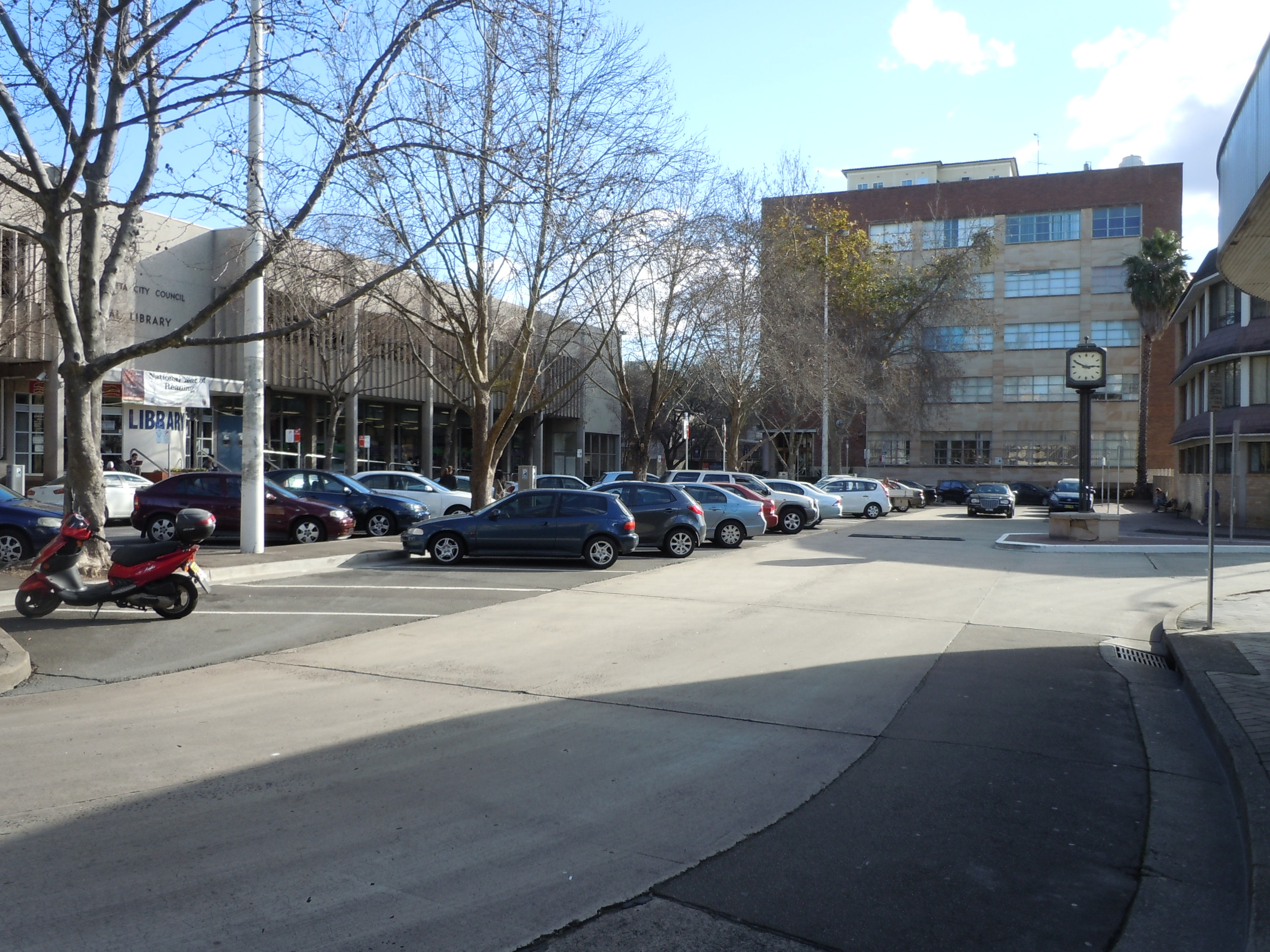 Civic Place.